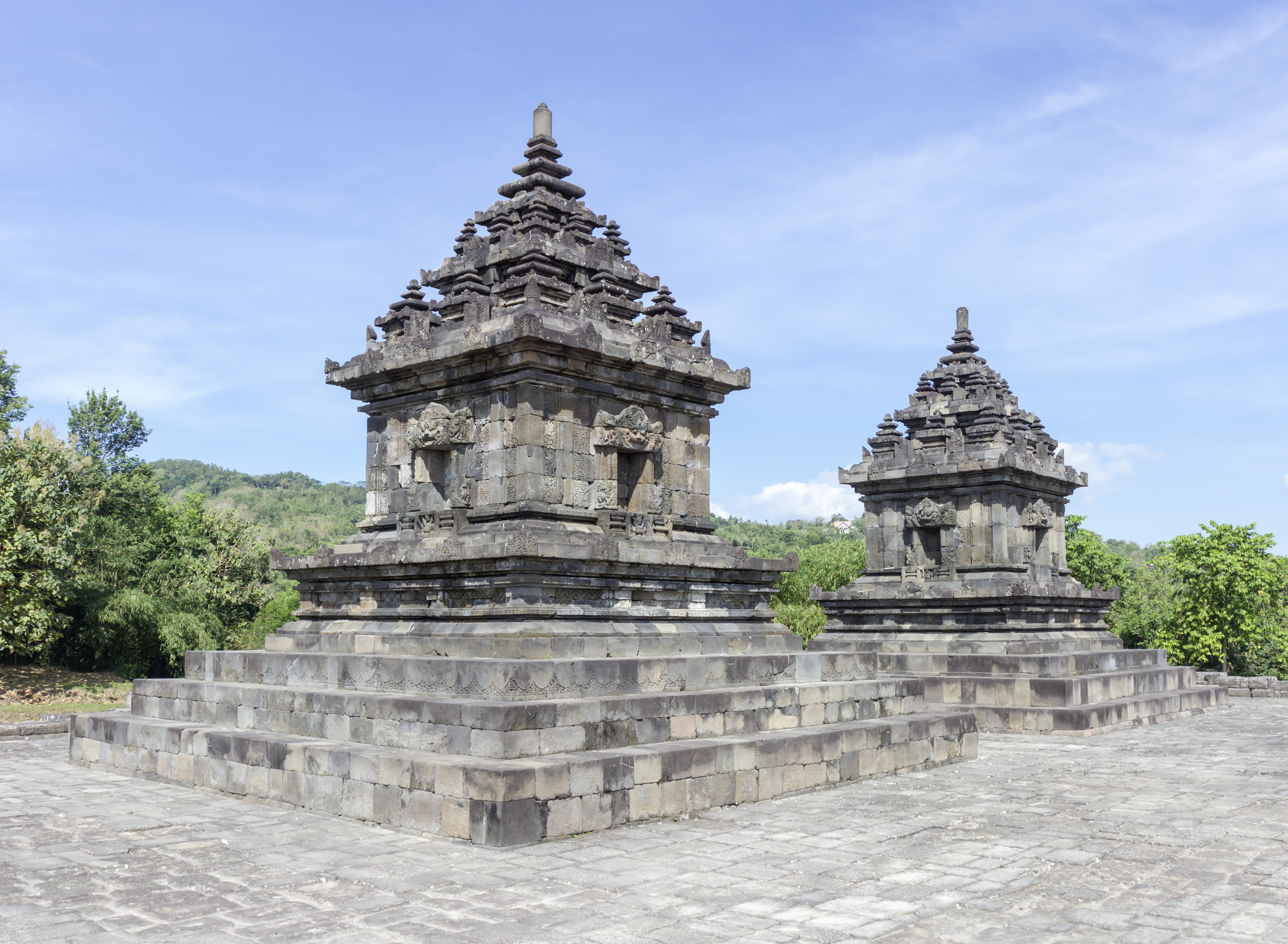 Barong Temple (two buildings) 2014-05-31